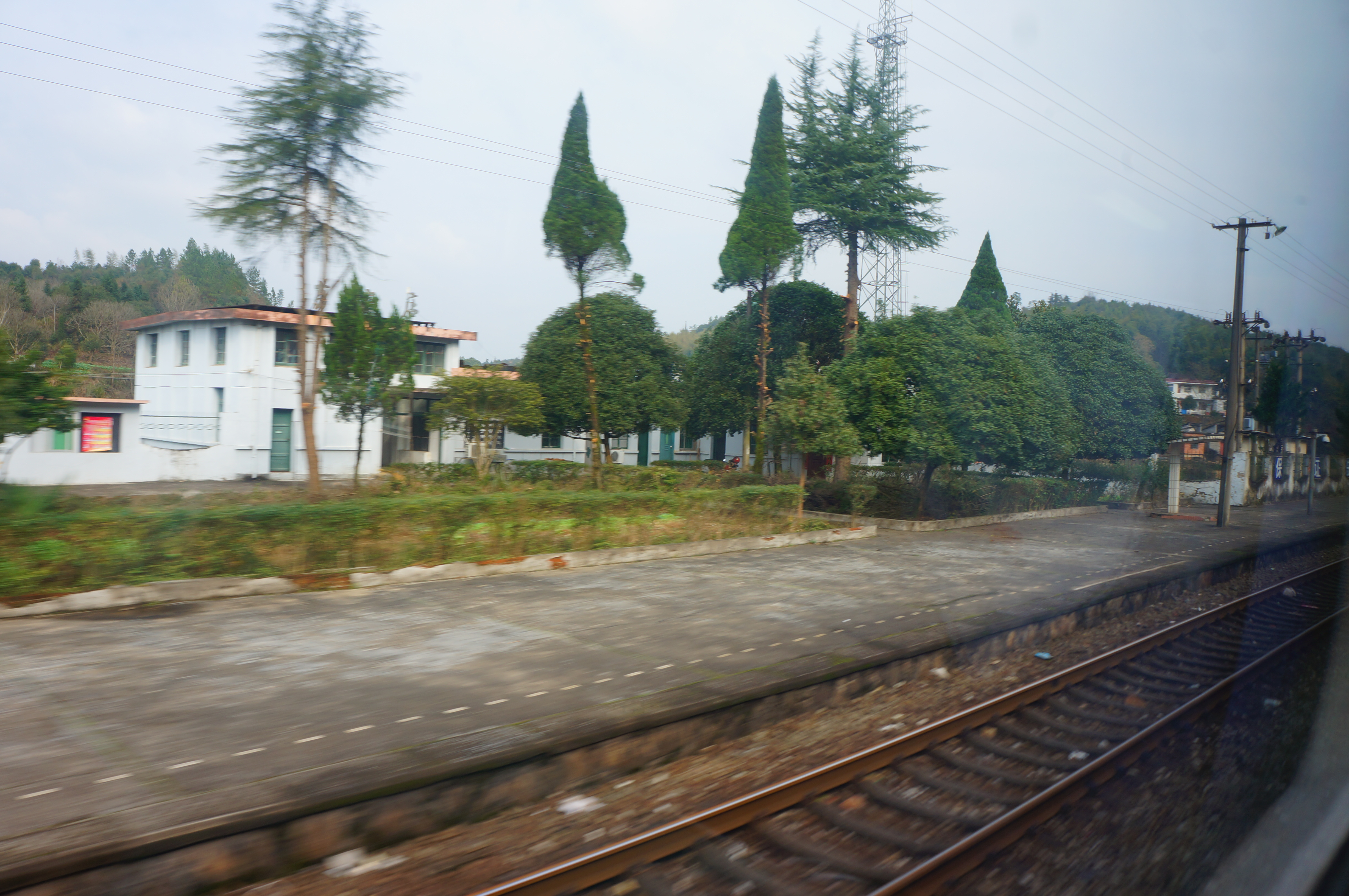 201612 Gejiadian Station